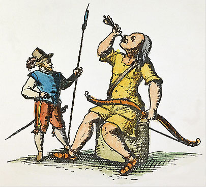 PATAGONIAN GIANT, 1602. A European watches a Patagonian giant swallowing an arrow to cure his stomach ache. Line engraving, 1602.